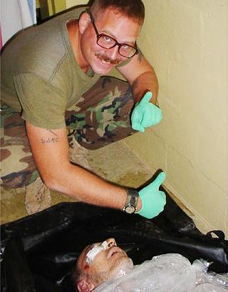 11:38 p.m., Nov. 4, 2003. Detainee died during an interrogation by OGA, and was placed in the shower area of tier 1, hard site. The body bag was opened so CPL GRANER and SPC HARMON could take pictures of the detainee. No NDRS or ISN numbers, as he was never processed in the system. SOLDIER(S): CPL GRANER. All caption information is taken directly from CID materials. U.S. Army / Criminal Investigation Command (CID). Seized by the U.S. Government. Note: Charles Graner poses over the body of a murdered Iraqi prisoner.